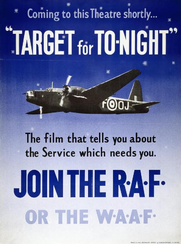 target for Tonight whole: The image is positioned just above the centre of the design, with text in blue, white and black above and below. image: A photograph of an RAF Wellington bomber flying through a starlit sky. text: Coming to this Theatre shortly....'TARGET FOR TO-NIGHT' The film that tells you about the Service which needs you. JOIN THE RAF OR THE WAF